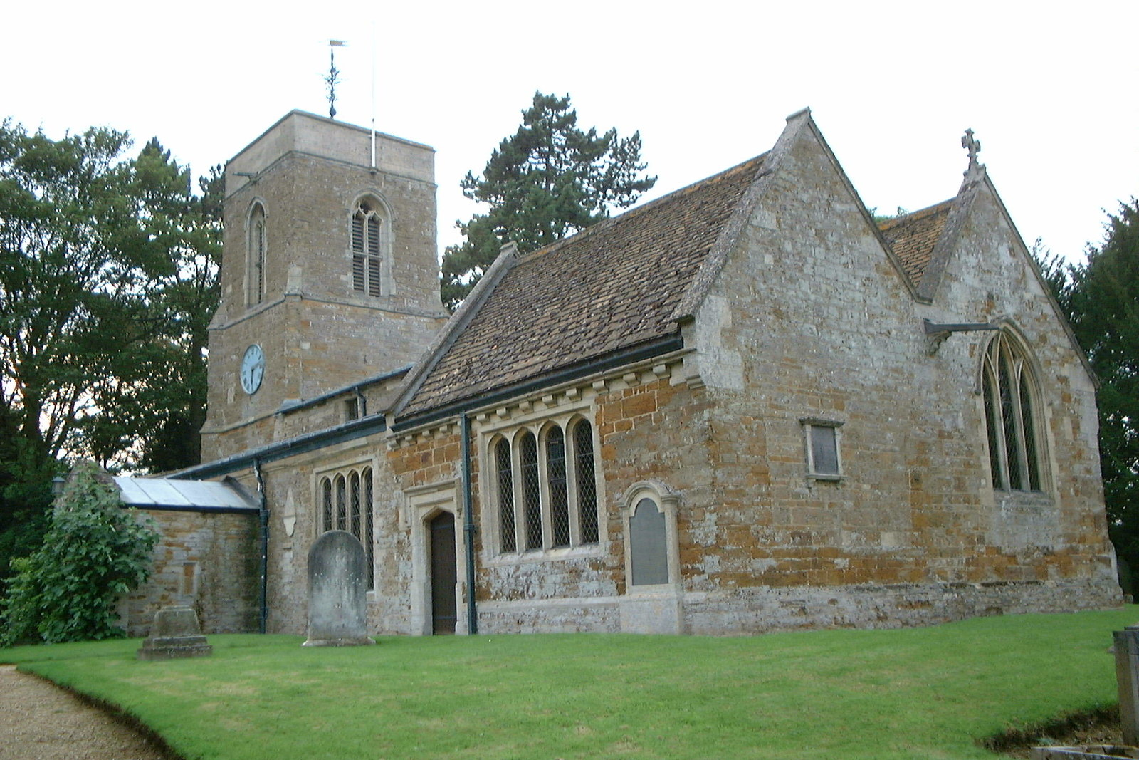 All Saints' parish church, Dingley, Northamptonshire, seen from the east